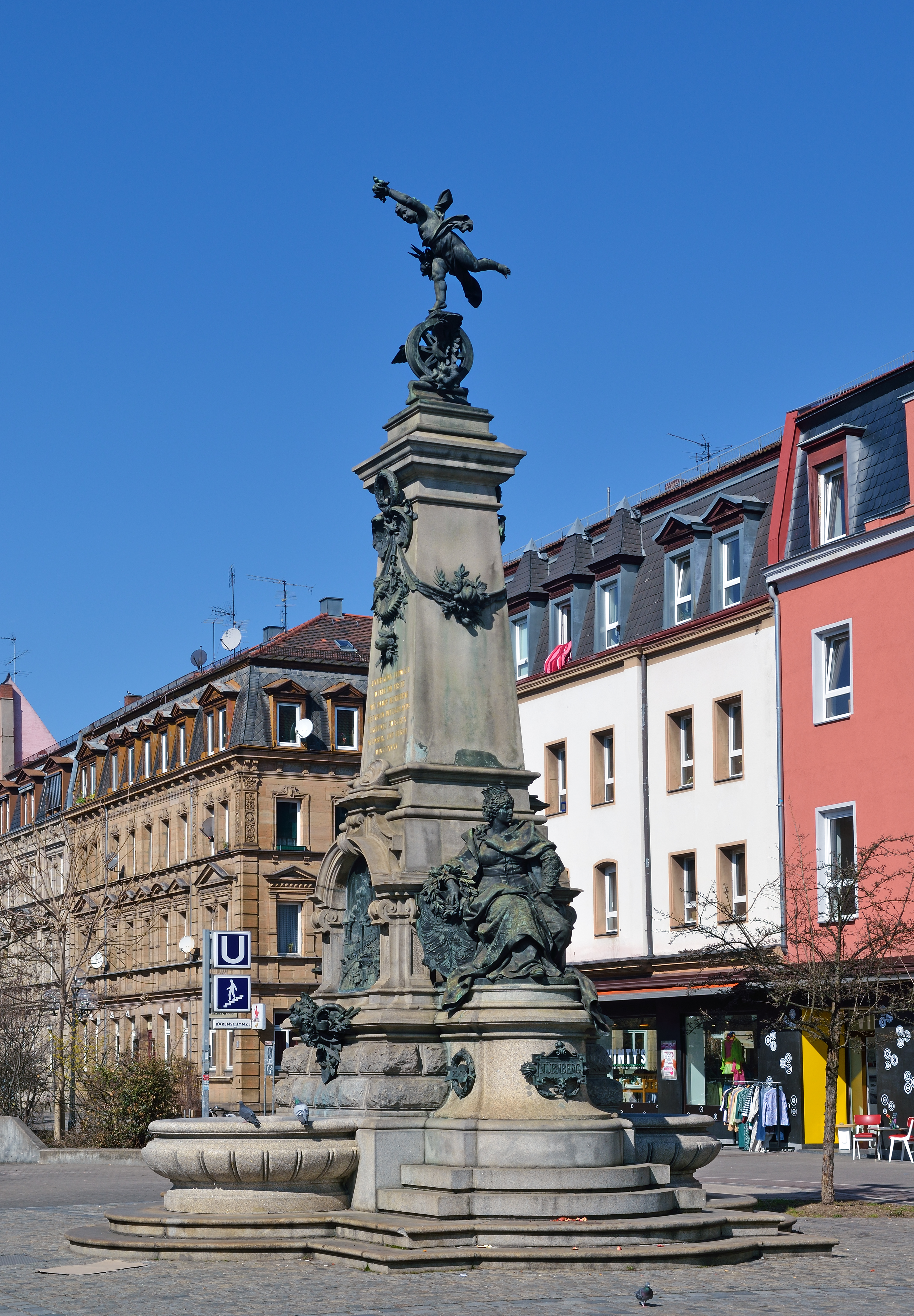 the Ludwig Eisenbahn monument in Nuremberg